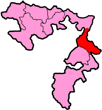 The seventh electoral unit of Republika Srpska (NSRS) shown within Bosnia and Herzegovina.